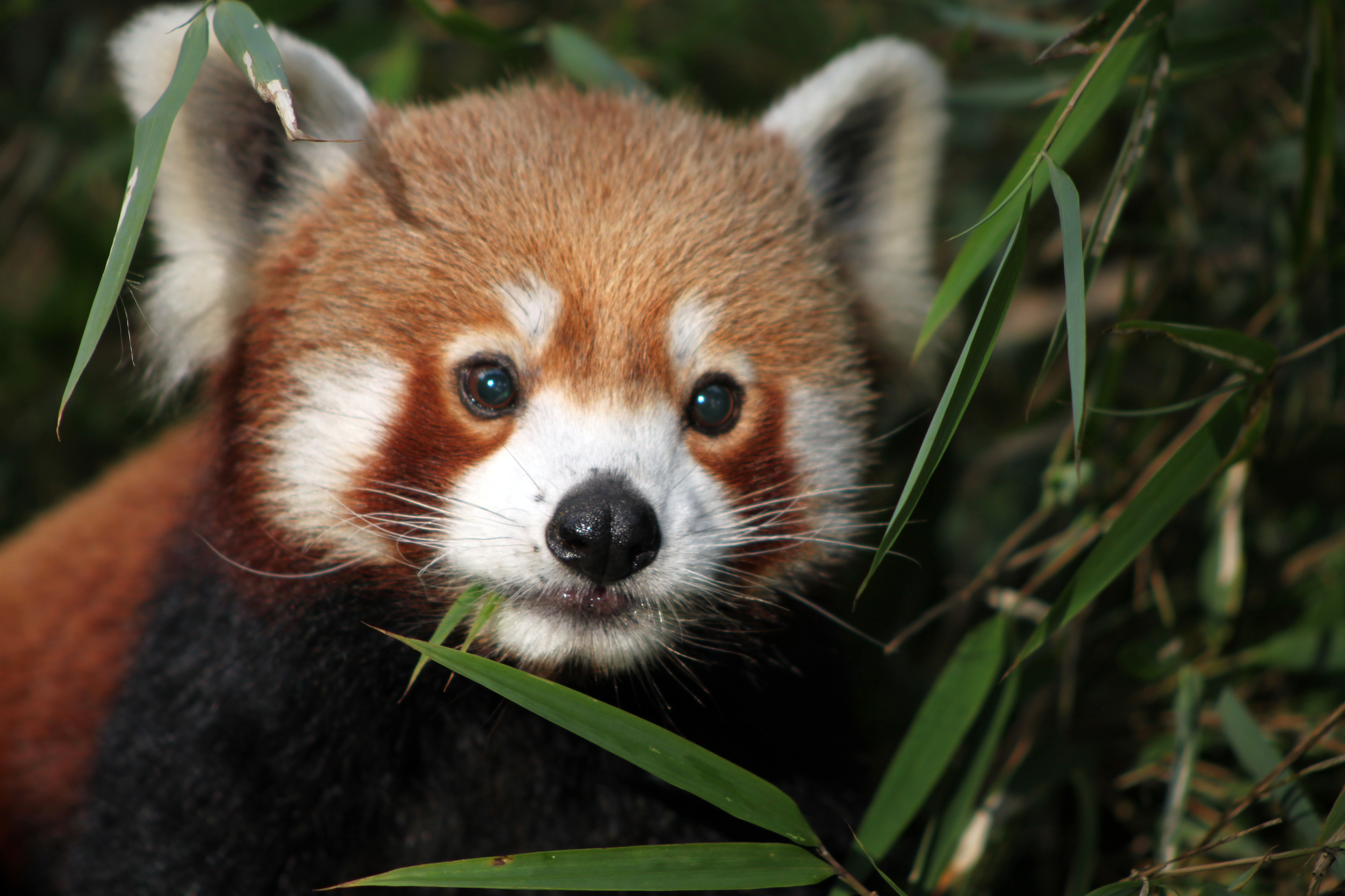 Face of a red panda